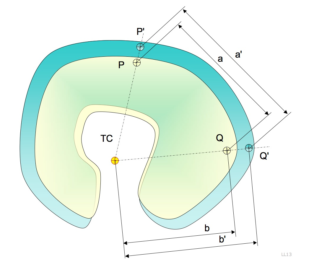 Illustrative picture of the thermal center.